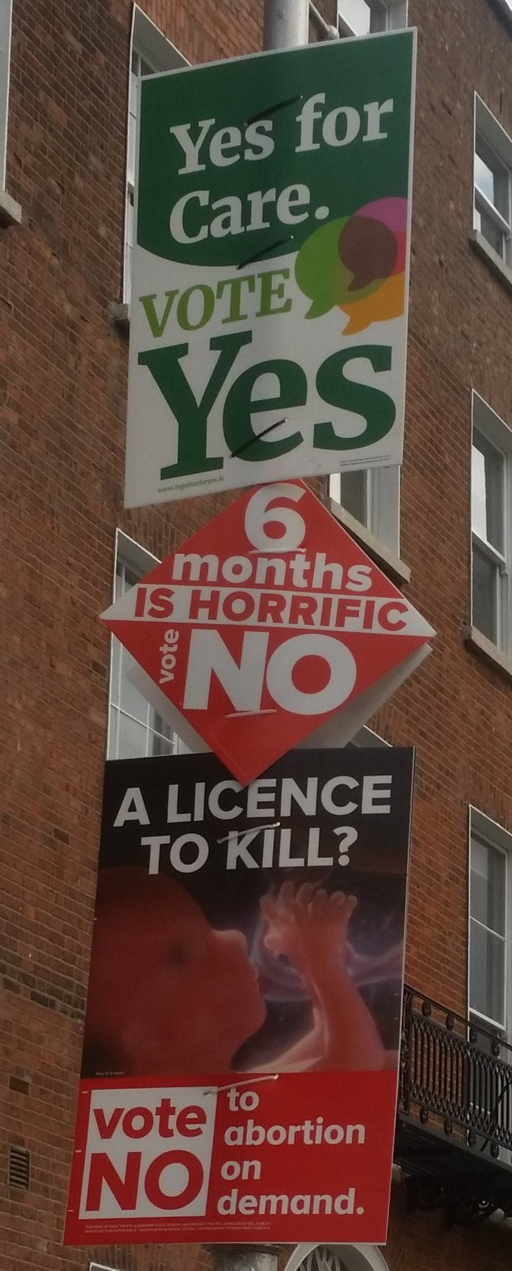 Street scene of Georgian terrace in Dublin with posters from the May 2018 referendum campaign